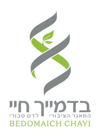 Logo of Bedomaich Chayi Public CORD Blood Bank